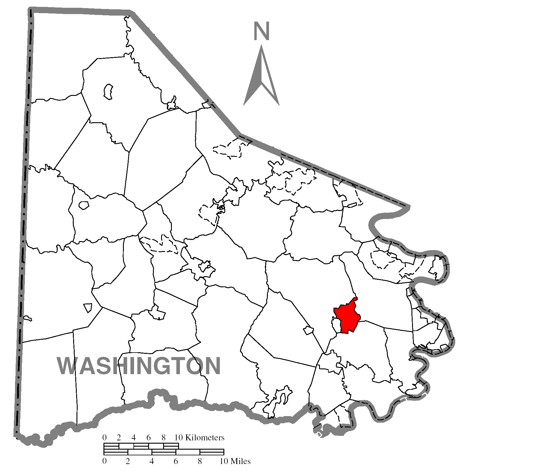 Map of Washington County higlighting Bentleyville.